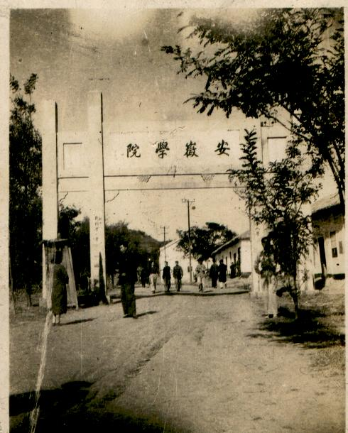 Gate of Anhui College